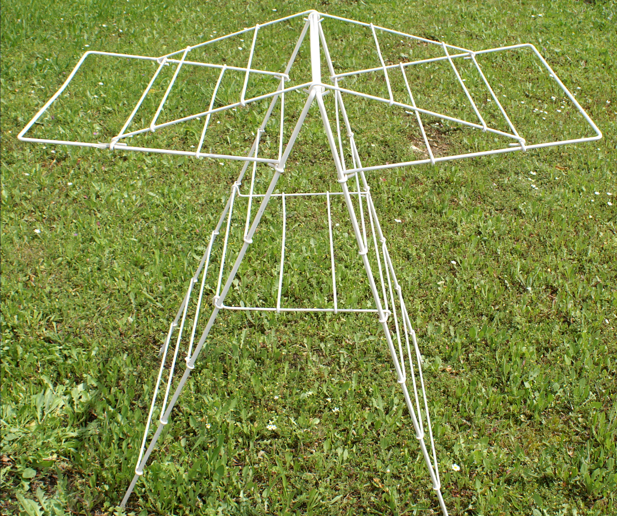 Airer